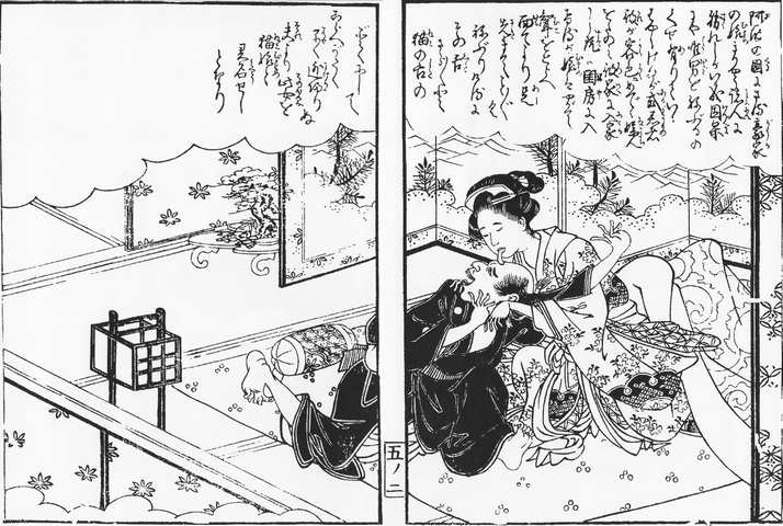 Name-onna (嘗女, the woman who licks a body of a man) from Ehon-Sayo-Shigure (絵本小夜時雨)